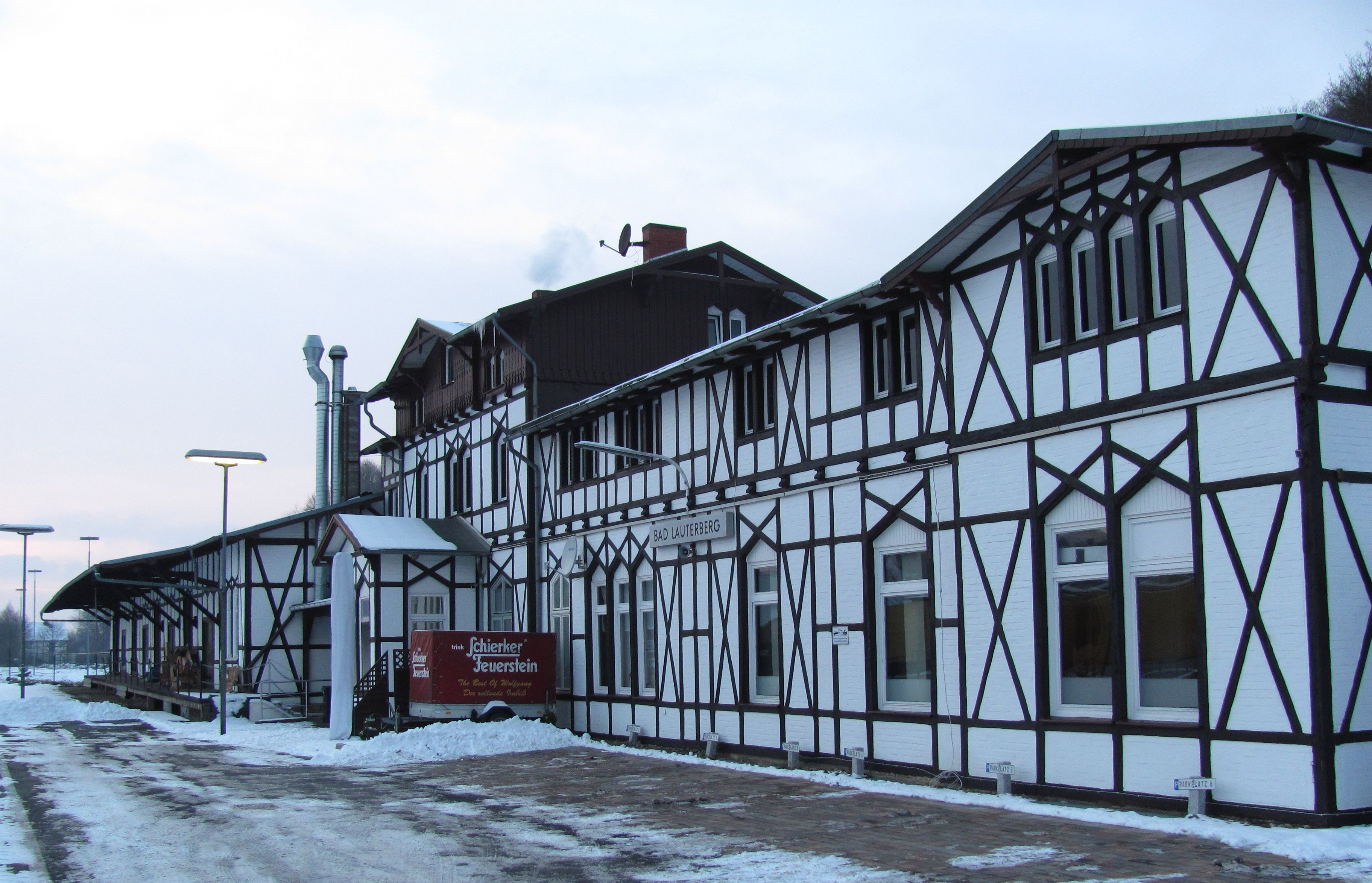 Former railway station, Bad Lauterberg, Lower Saxony, Germany